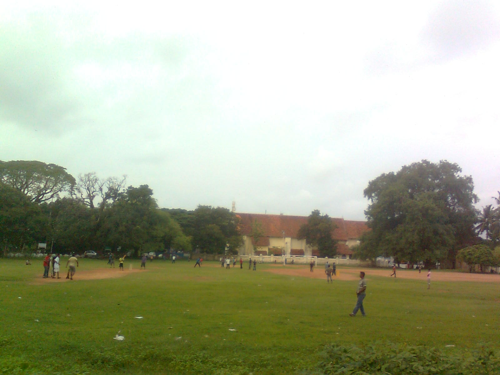 Ancient British reminders for us ..